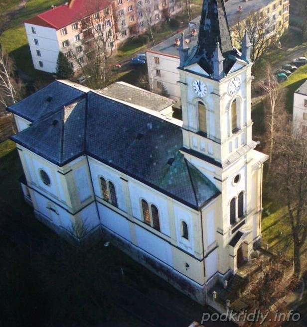 Aš, Church of Saint Nicholas